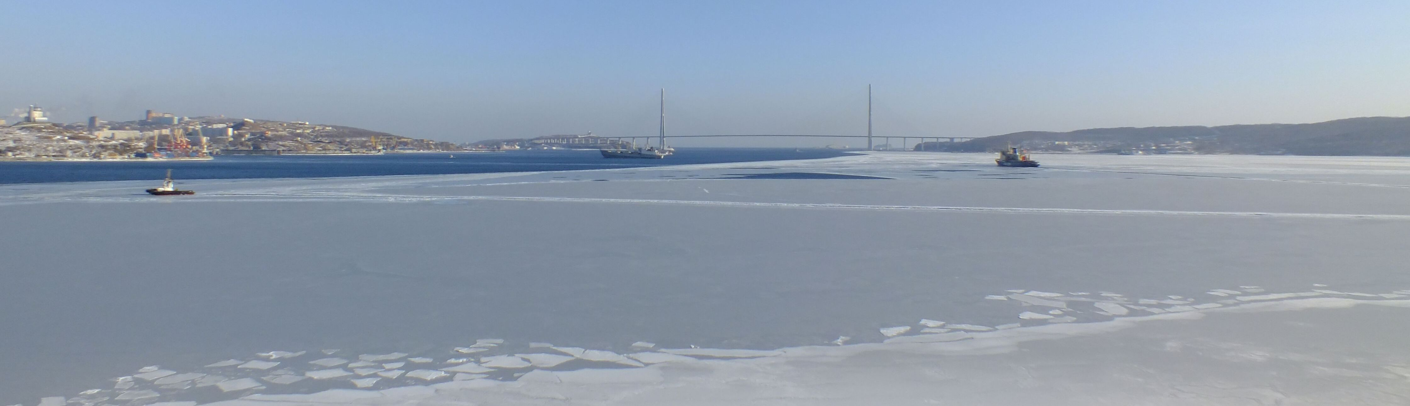 Eastern Bosphorus